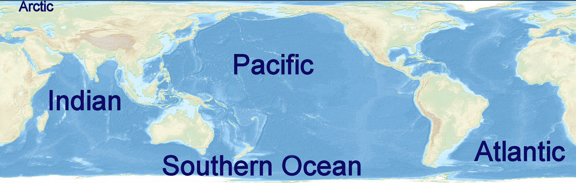 Map of the world's oceans in Lambert cylindrical equal-area projection.